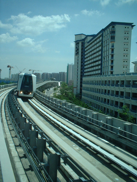 Sengkang Light Rail Transit, with the Crystal Mover shown.